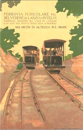 Lanzo d'Intelvi funicular - leaflet